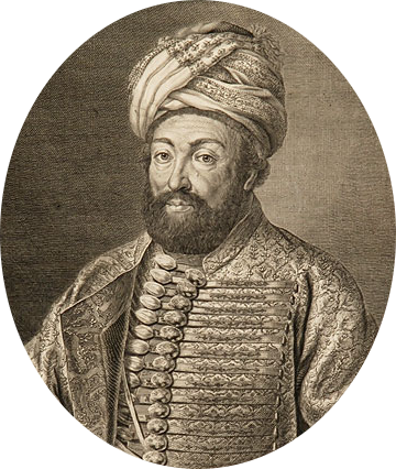 Portrait of King Teimuraz II of Georgia